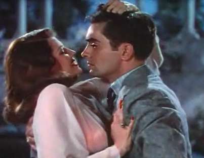 Cropped screenshot of Rita Hayworth and Tyrone Power from the trailer for the film Blood and Sand.